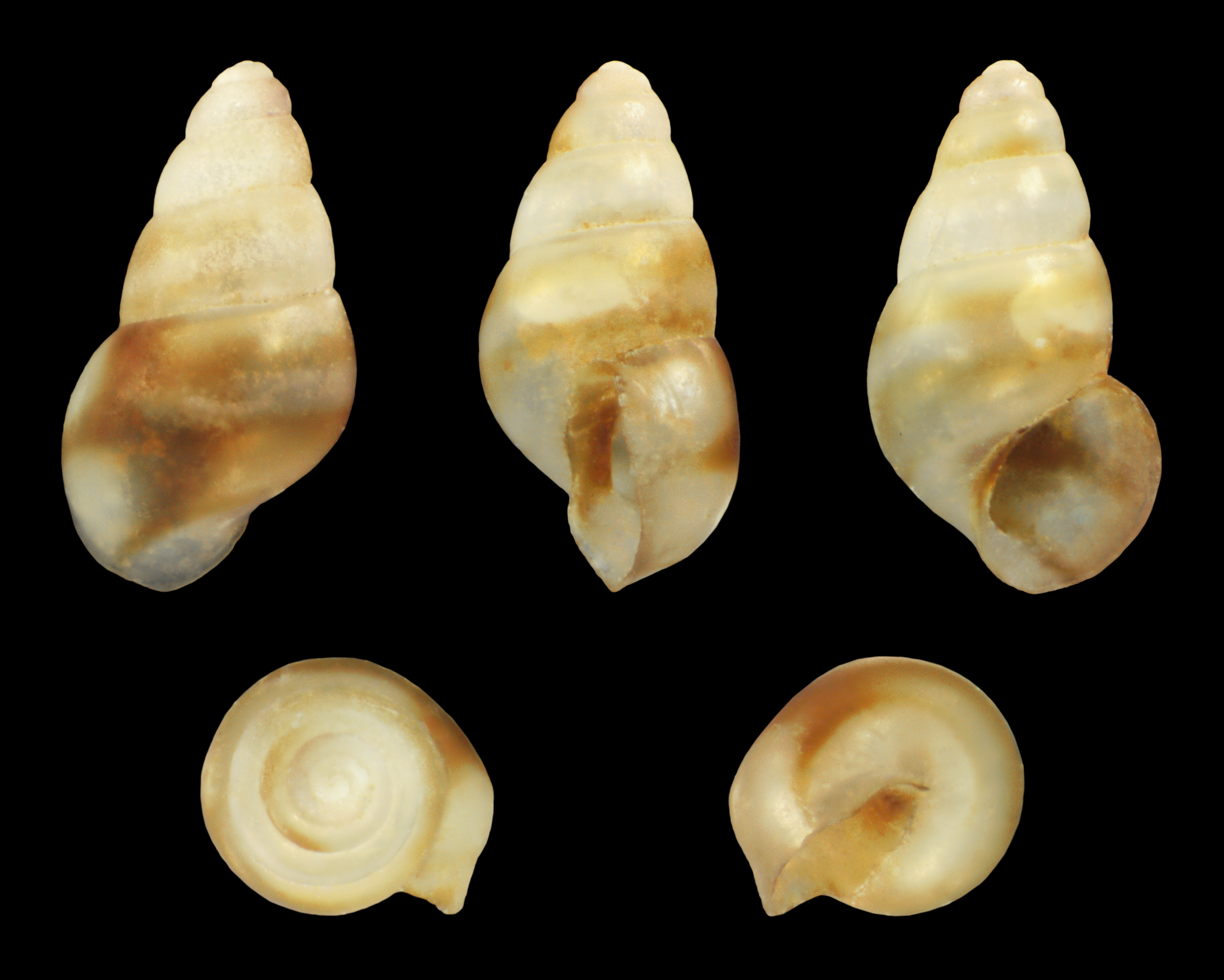 Rissoa parva interrupta var. bifasciata Sars, 1878, Length 0.23 cm; Originating from Heligoland, Germany; Shell of own collection, therefore not geocoded. Original description by Sars 1878 (Bidrag til Kundskaben om Norges arktiske Fauna. I. Mollusca Regionis Arcticae Norvegiae. Oversigt over de i Norges arktiske Region Forekommende Bløddyr. Brøgger, Christiania. xiii + 466 pp., pls 1-34 & I-XVIII.): "Testa tenuior, fragilis, cornea, fasciis longitudinalibus nullis sed cingulis 2 spiralibus latis, fusco-rufescentibus supra aperturam confluentibus obducta, varice labiali obsoleta."